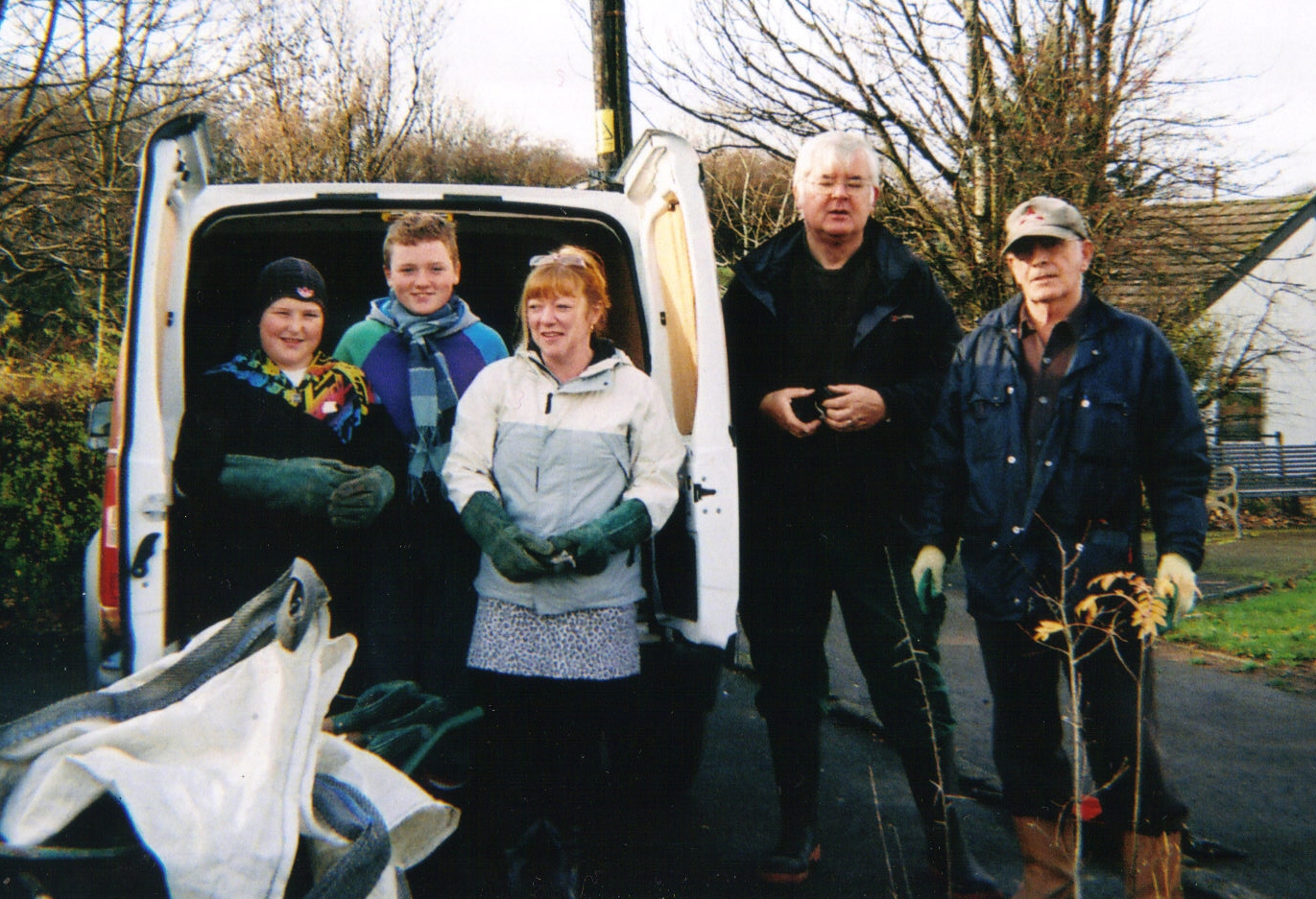 Members of the Barrmill Communities Projects Initiatives outside the Barrmill Community Centre. North Ayrshire, Scotland.